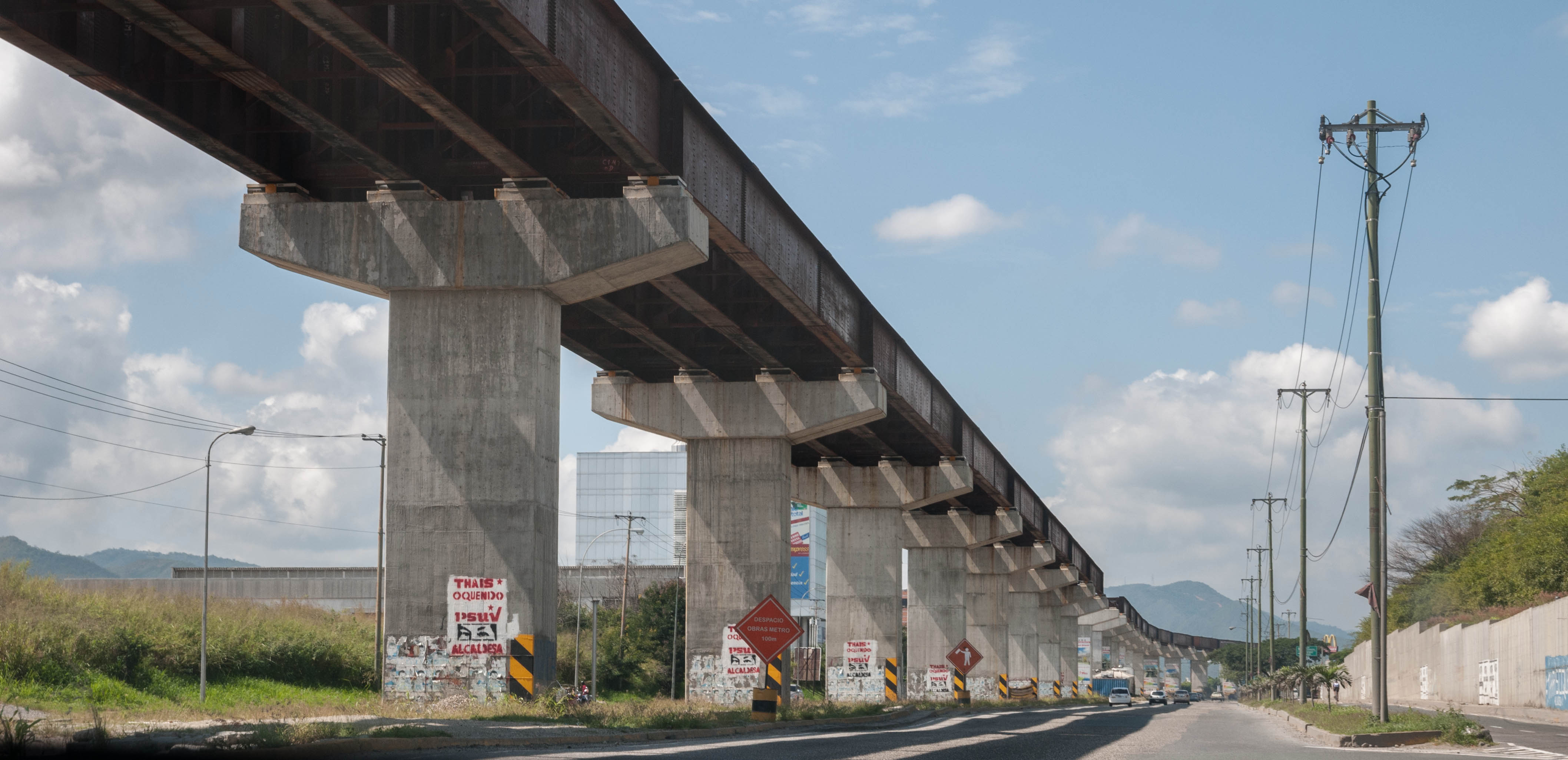 Caracas-Guarenas train underconstruction